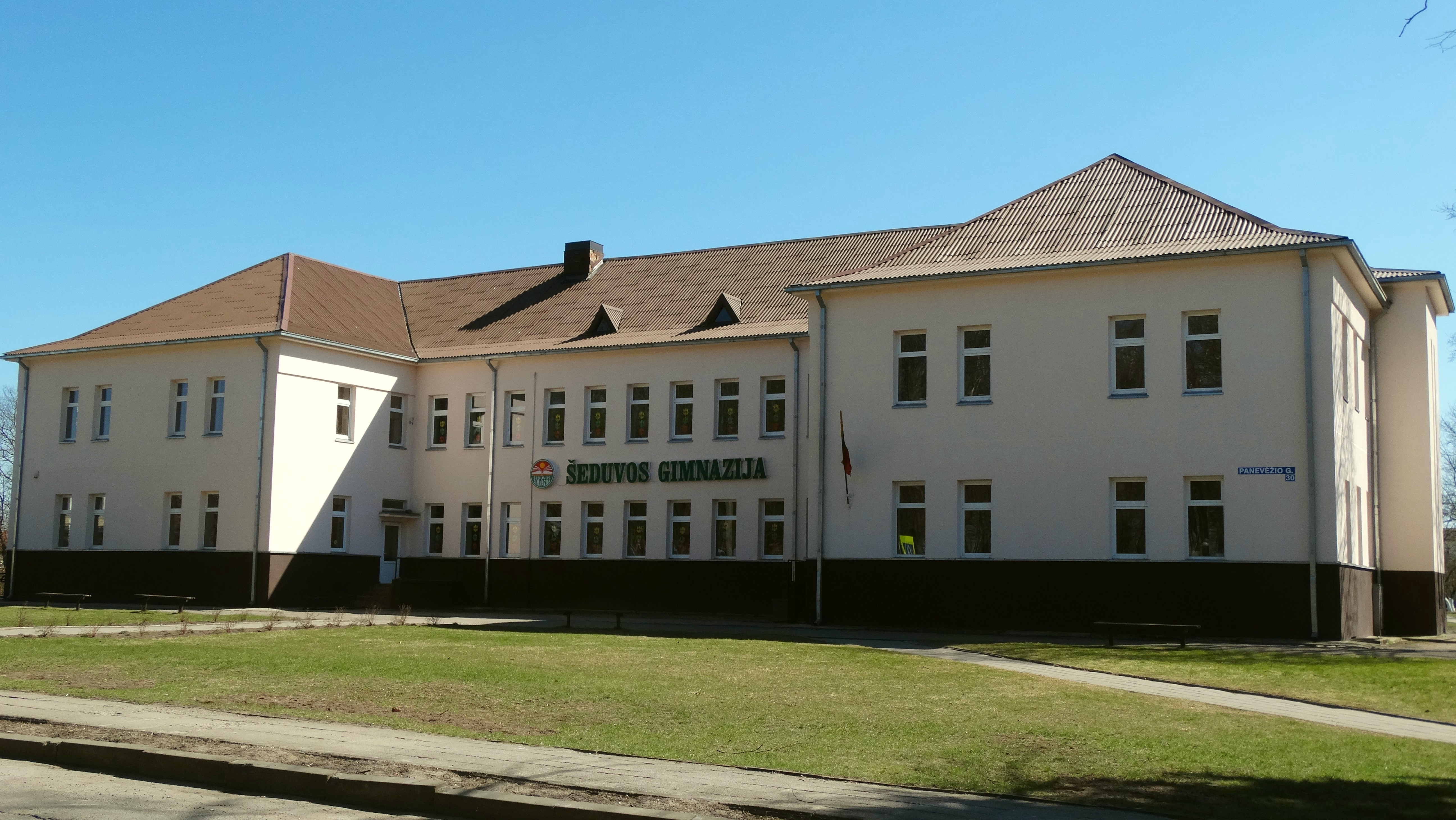 Šeduva Gymnasium, Lithuania